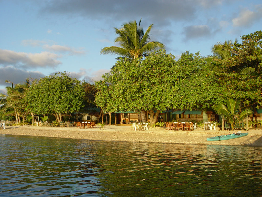 Beach on Vava'u, Tonga